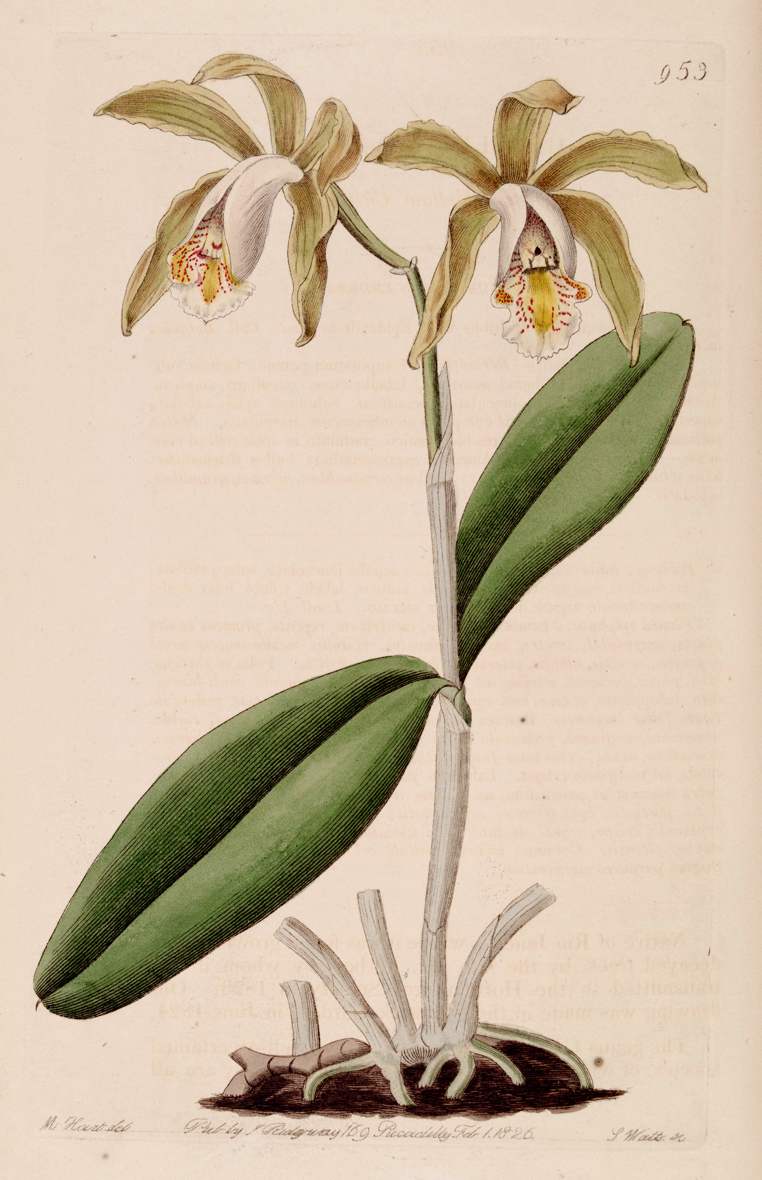 Illustration of Cattleya forbesii